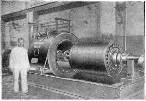 A disassembled 100 kW Goldschmidt alternator radio transmitter at Eilvese, Germany in 1924, showing the large rotor. The Goldschmidt alternator, invented in 1908 by Rudolph Goldschmidt, was a rotating machine used as a radio transmitter briefly during the 1920s. It was used in a few super power longwave radiotelegraphy stations to transmit transoceanic telegram traffic between nations. The Eilvese station was Germany's main contact with the outside world during World War 1 and was used, along with a sister station in Tuckerton, New Jersey, USA, by US President Woodrow Wilson and Kaiser Wilhelm to negotiate the Armistice which ended World War 1. The Goldschmidt machine was turned by a 250 HP DC motor at 3000 RPM, and transmitted up to 100 kW of output power at 24 kHz, which drove an enormous antenna consisting of a ring of 390 ft. steel masts 3000 ft.in diameter, connected by an umbrella-shaped network of wires. The rotor weighs several tons and rotates with a narrow clearance of 0.8 mm within the stator assembly. To prevent eddy current losses it is made of thin 0.5 mm steel laminations separated by paper sheets. Caption: "A disassembled Goldschmidt high frequency alternator showing the construction of the rotor. Note the size of the machine compared to the man."